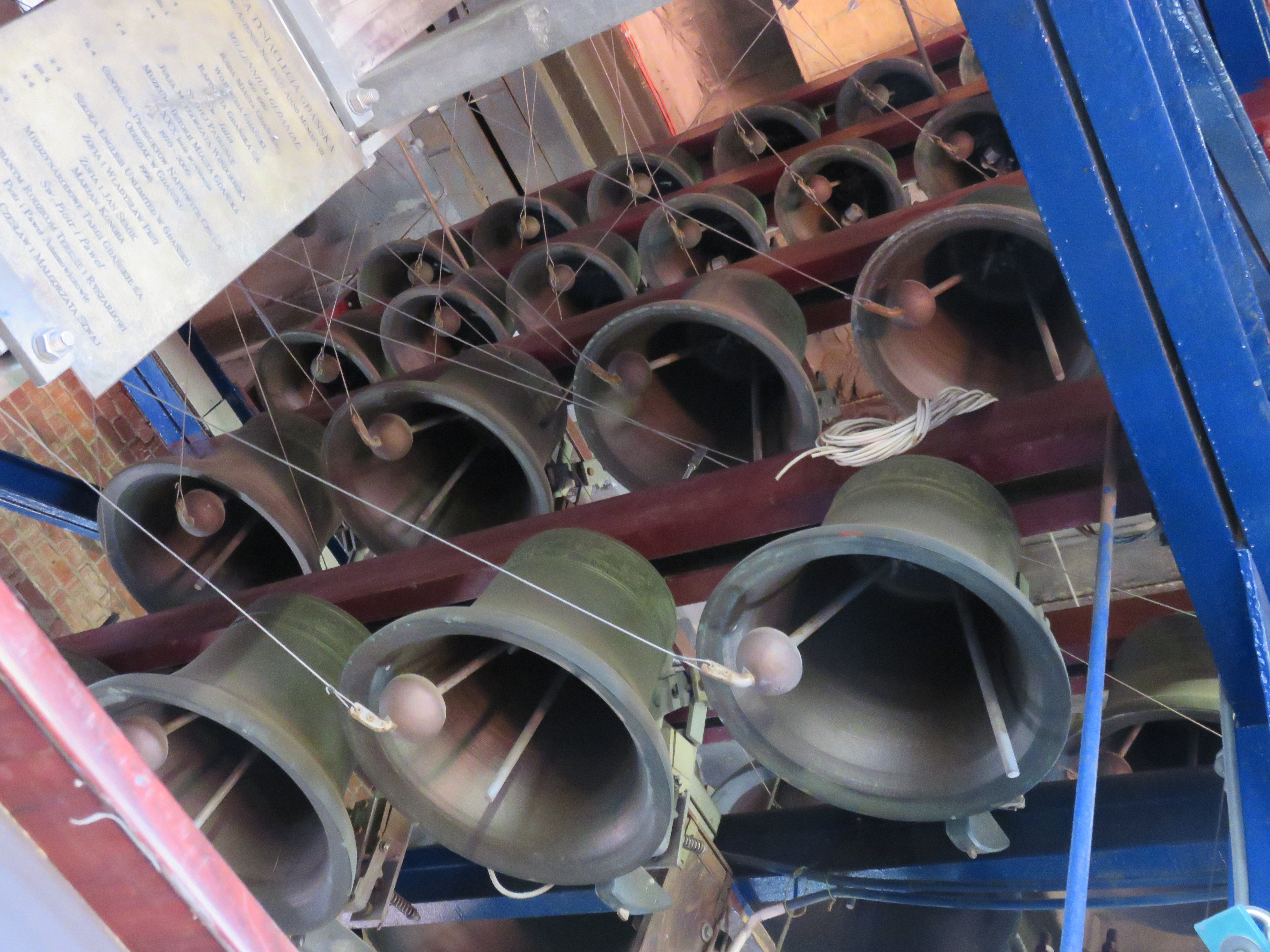 Carillon of St. Catherine's Church in Gdansk.